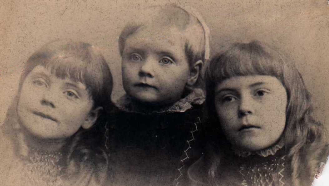 Family photo, taken around 1890 since youngest sister Florence appears to be about 4, and she was born in 1886. The back was labeled much later with their married names: 1-Mabel Gill, 2-Florence McCalley, 3-Anne McCormick. The unpublished photo was taken in 1890 or earlier. No copyright notice or name of the photographer is shown with it. The general rule for anonymous unpublished work in the US is it becomes public domain 120 years after the photo was taken, so in 2010.[1] More specifically if it was taken by a parent, they died in 1923 (father) and 1931 (mother), so more than 70 years have passed since the death, and the same source says it has entered the public domain. [2] More specifically if it was taken by a parent, they died in 1923 (father) and 1931 (mother), so more than 70 years have passed since the death, and the same source says it has entered the public domain. [3] ↑ ↑ ↑